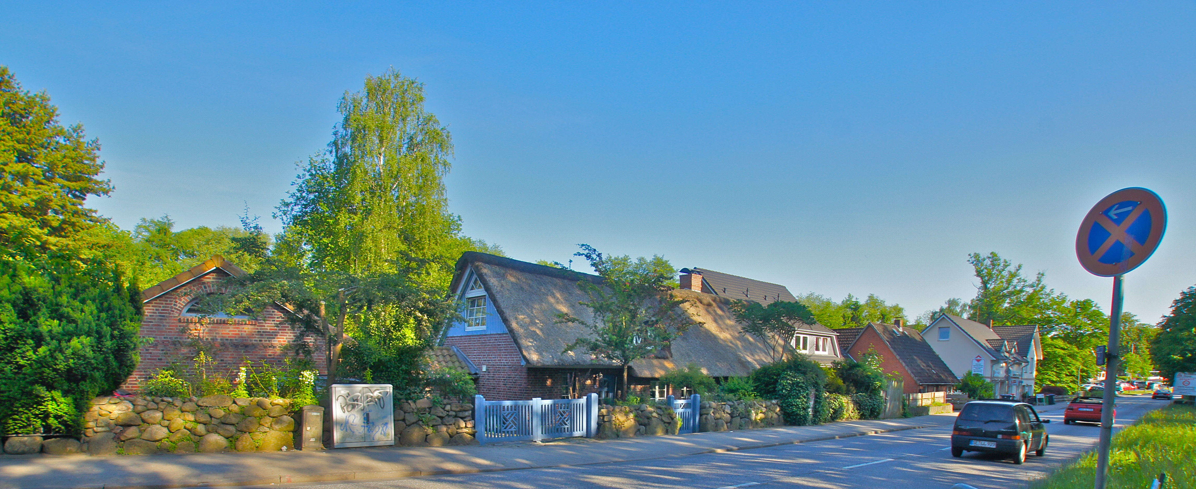 Hamburg (Duvenstedt), Germany: Thatched house in the Lohe Street